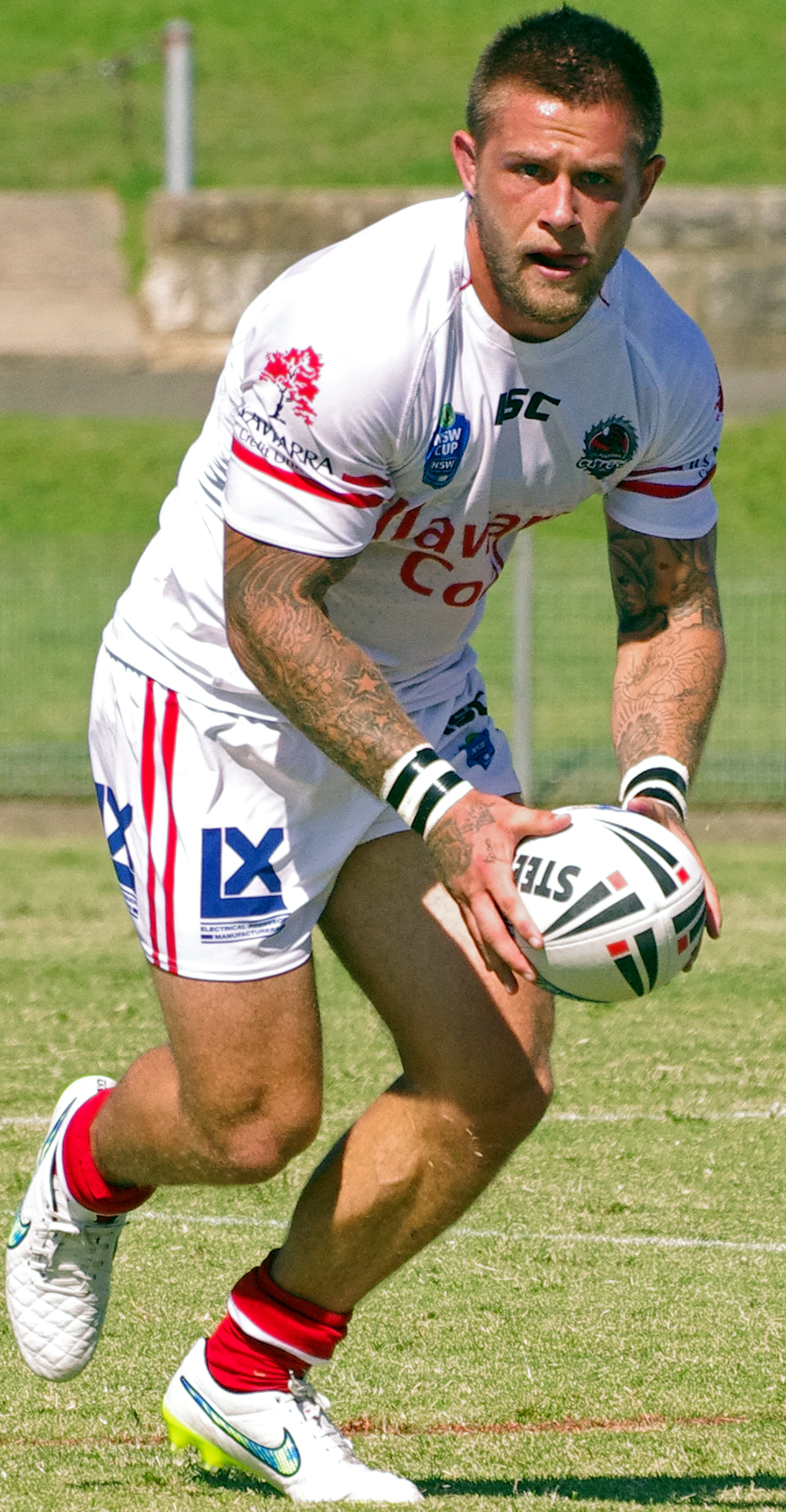 Craig Garvey